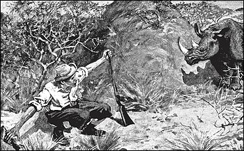 Ewart Grogan facing a rhino. From the book: From the Cape to Cairo. The first traverse of Africa from south to north. London: Hurst and Blackett, 1900